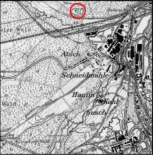 Vegla Polder in Stolberg Atsch